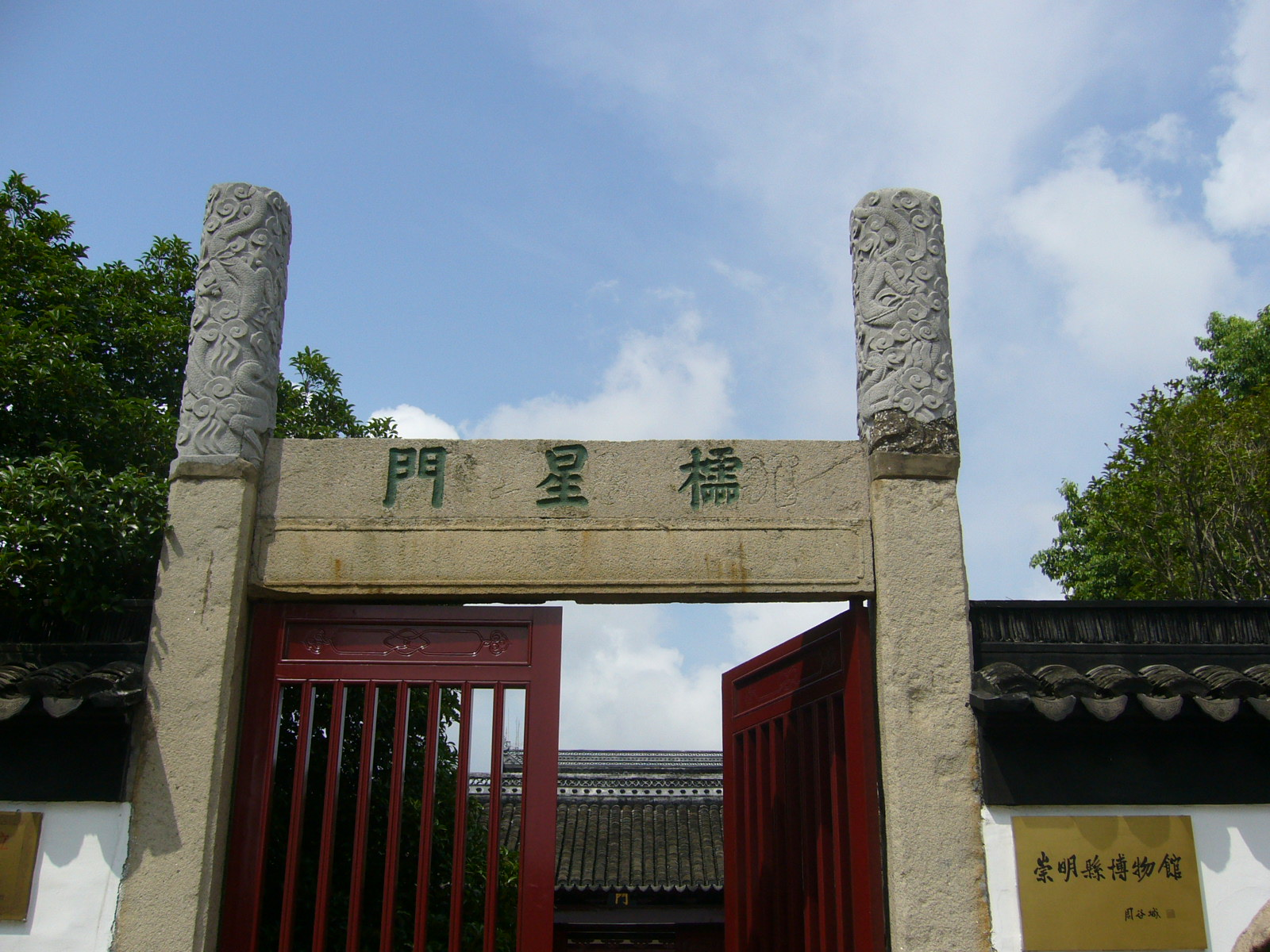 Lingxing Gate of the Chongming Confucian Temple